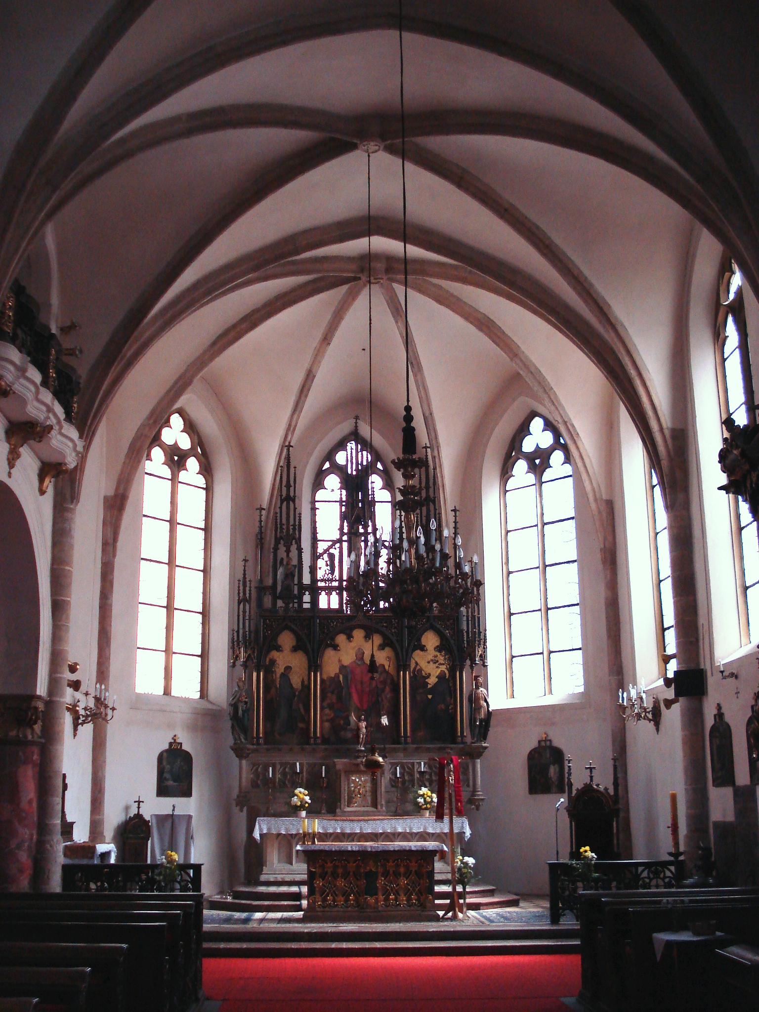 Saint Adalbert Church in New Town - interior